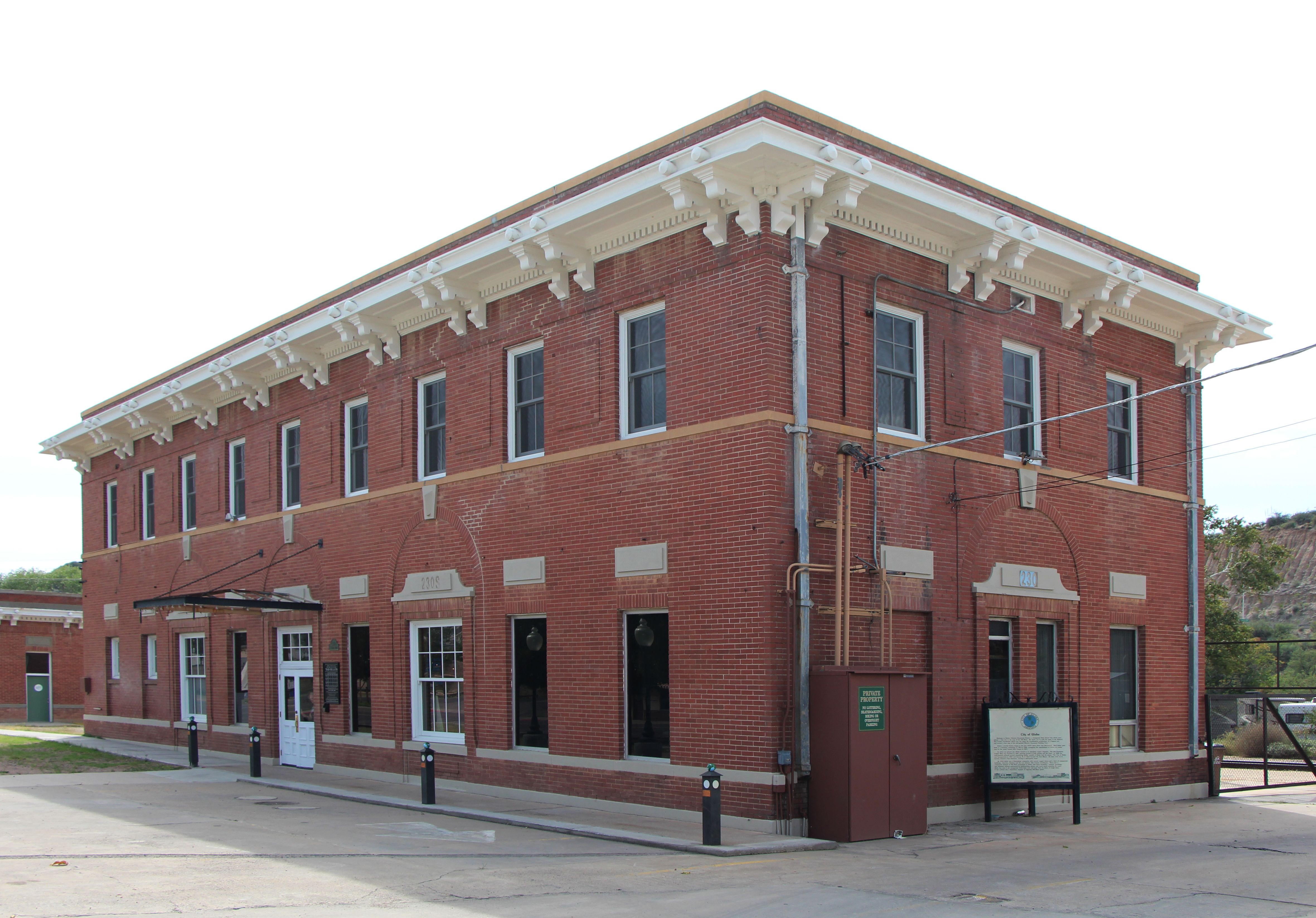 Arizona Eastern Railroad Depot, 230 Broad St, Globe, AZ